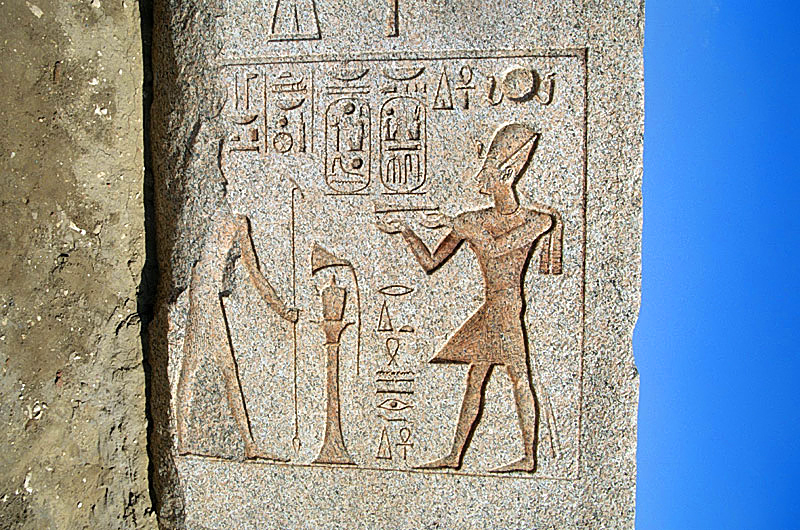 Part of an obelisk, king Ramesses II offering, San el-Hagar (Tanis), Egypt